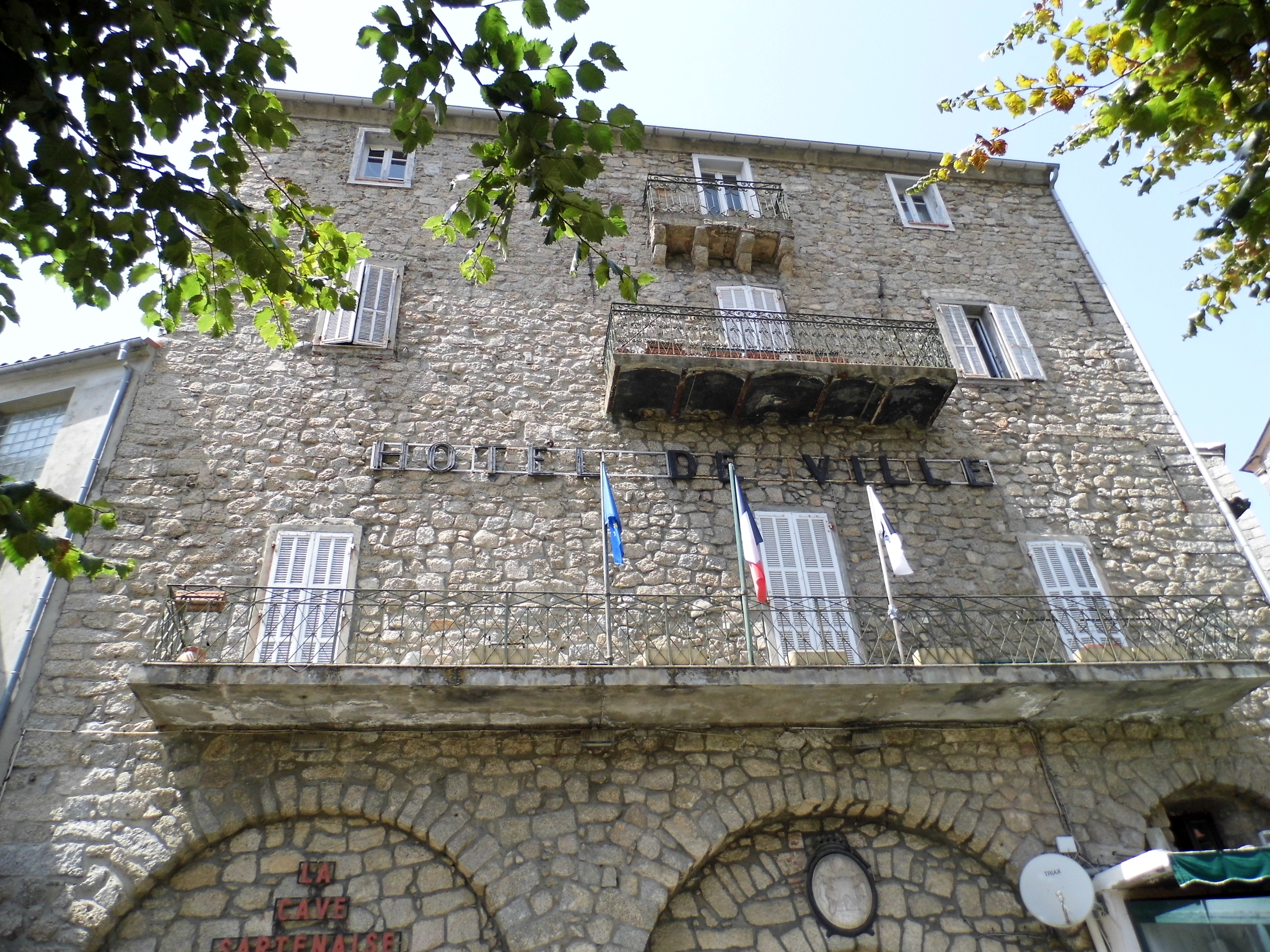 Town Hall of Sartène, Corsica